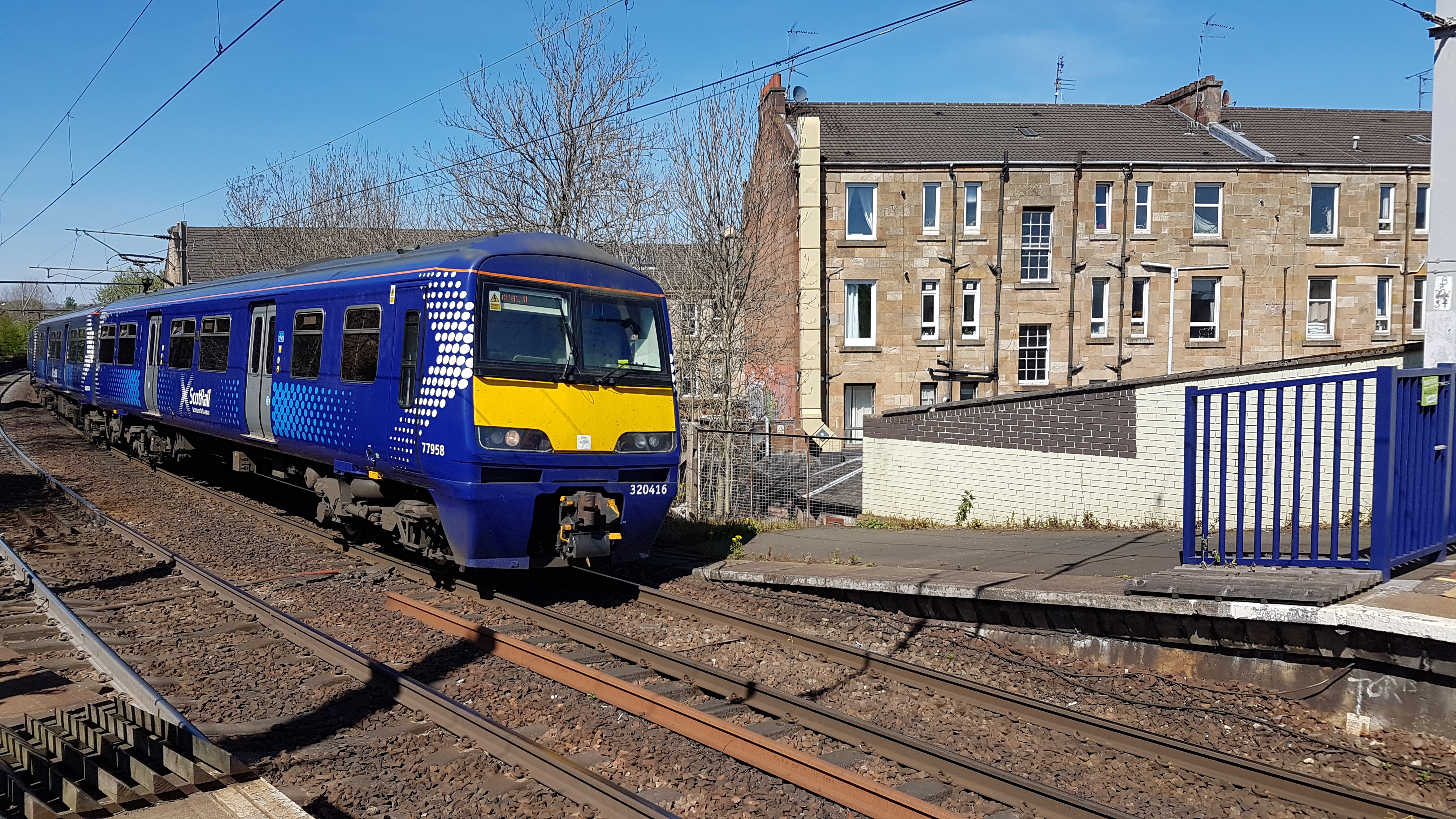 ScotRail Class 320/4 No. 320416 (former London Midland 321/4 No. 321416) arrives at Partick.